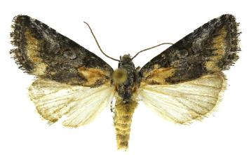 Aleptina arenaria in copulo inside coccoon of female